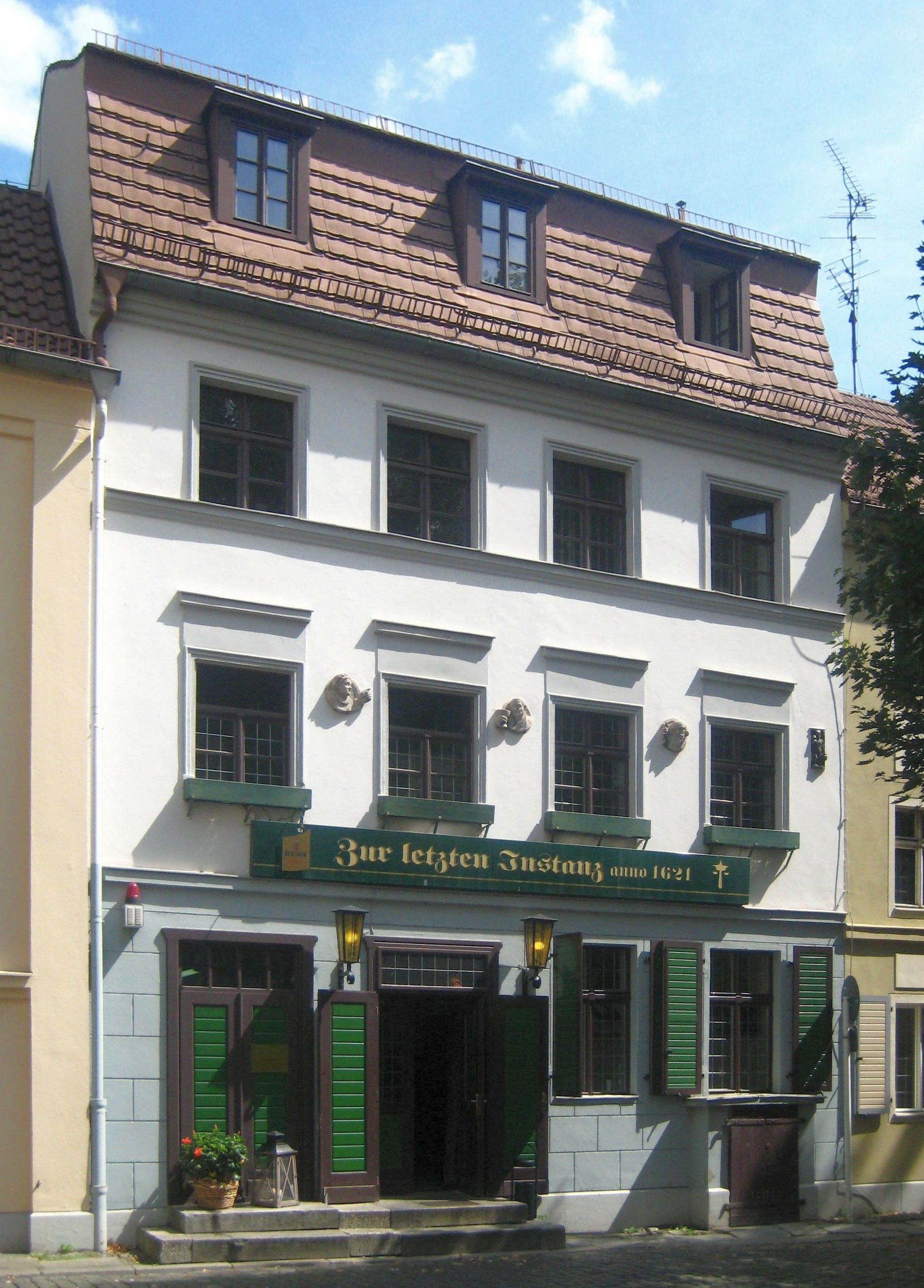 The pub and restaurant "Zur letzten Instanz" at Waisenstraße 15 in Berlin-Mitte, said to be Berlin's oldest still existing pub. Heavily damaged in WWII, the house was effectively built anew from 1961 to 1963. It is landmarked.